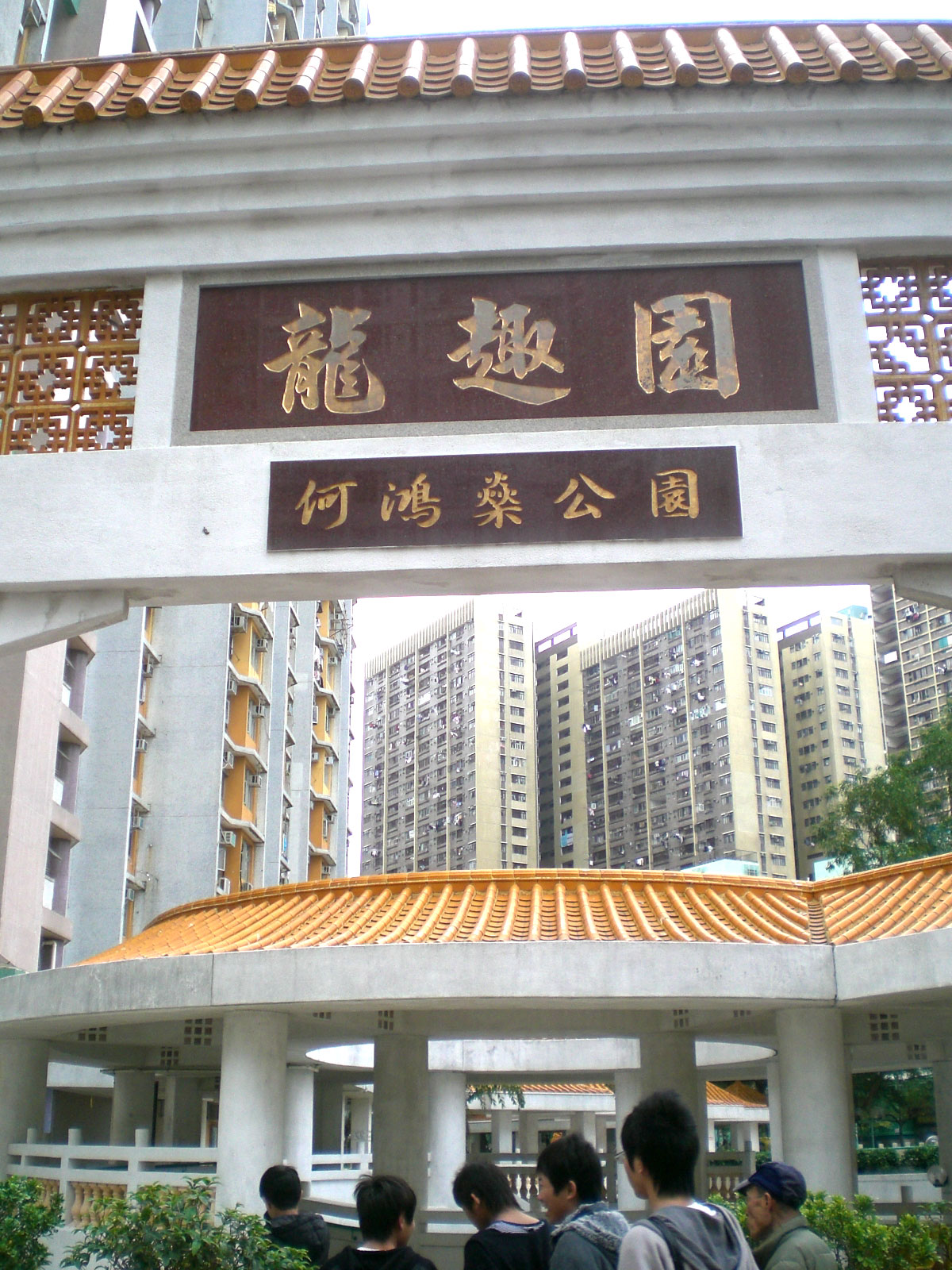 香港zh:黃大仙 黃大仙下邨 東頭村道